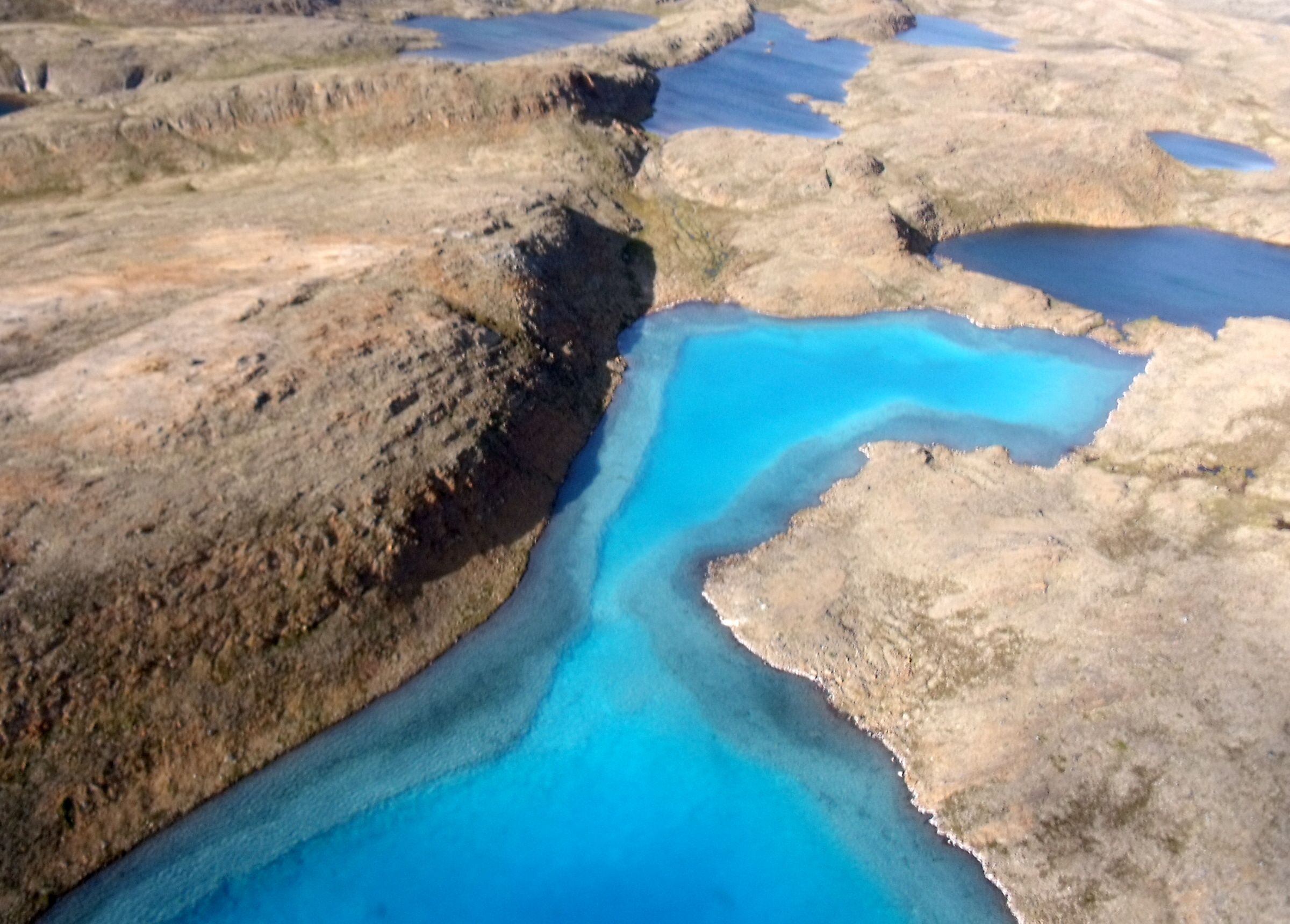 Earth tones and eye-catching aqua velva west of Soper Lake near Kimmirut, Baffin Island, Nunavut. Taken from an open window in a speeding helicopter.